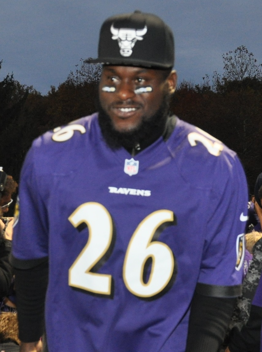 Baltimore Ravens safety, Matt Elam, at a charity event in 2013.